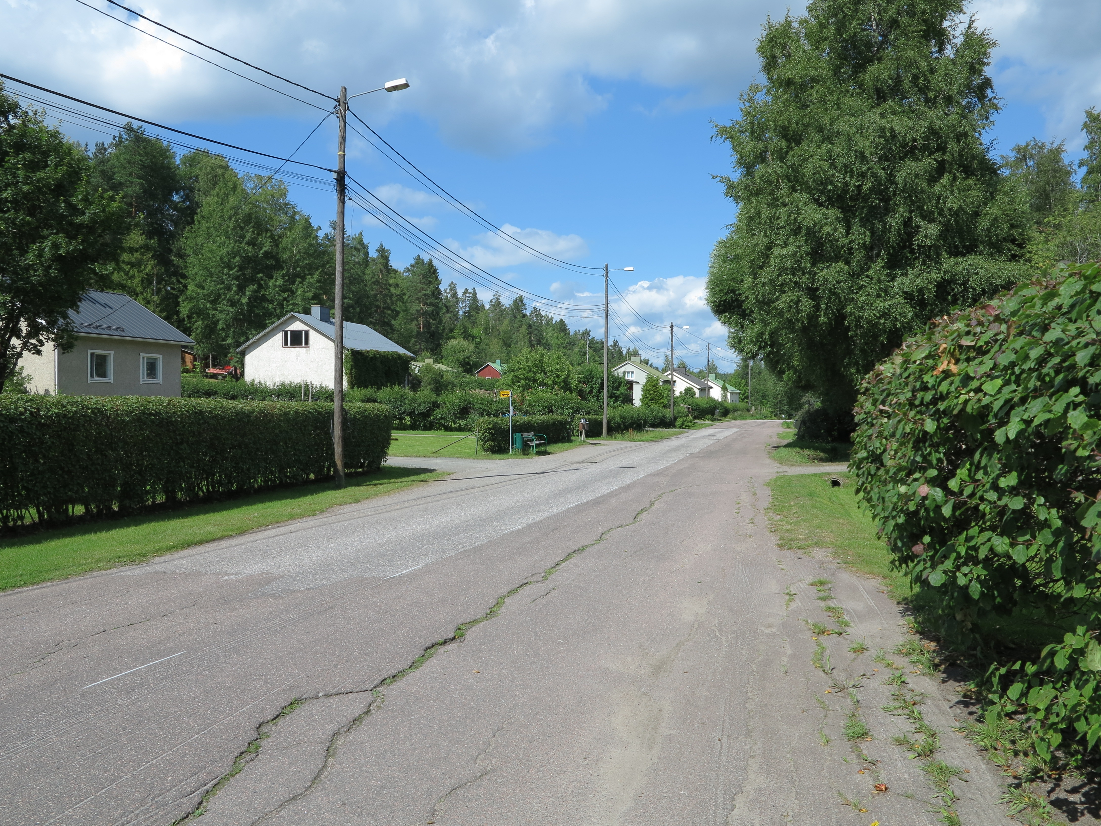 Harjulaaksontie in Heinola, Finland